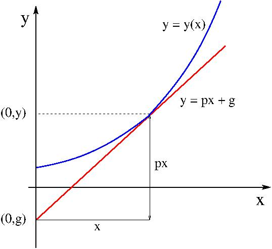 Illustrating geometrical content of a Legendre transformation of a function.